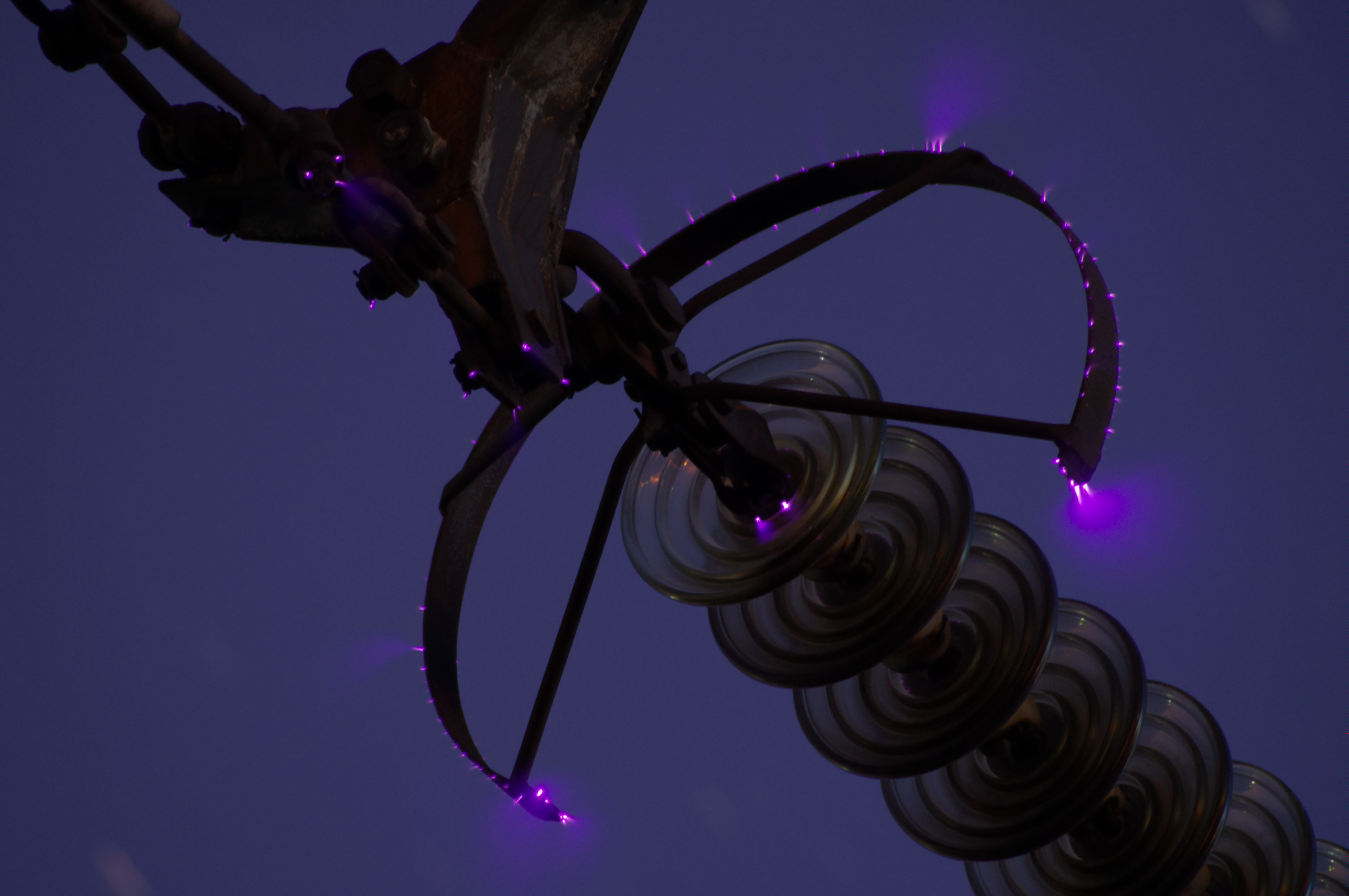 Corona discharge on corona ring of 500 kV overhead power line. The picture was taken at night by the Sony SLT-A37 camera on tripod, Sony DT 55-200/4-5.6 SAM lens @ 200mm/5.6, 90 seconds exposure via shutter release timer/intervalometer, ISO 200. Actually corona discharge looks a little weaker to the naked eye, but long exposure of camera does the job.